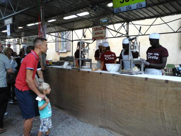 Potato Party in Oreno (Vimercate - Lombardy - Italy) 2015